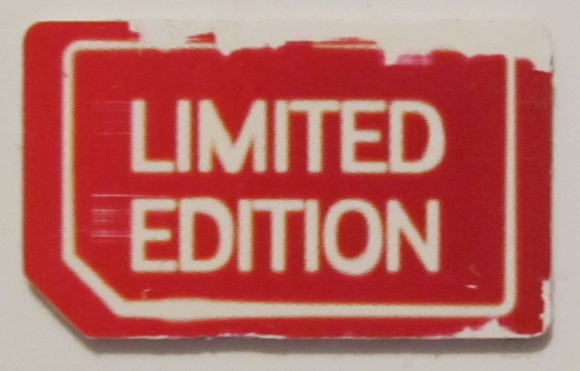 MTS Limited Edition SIM card